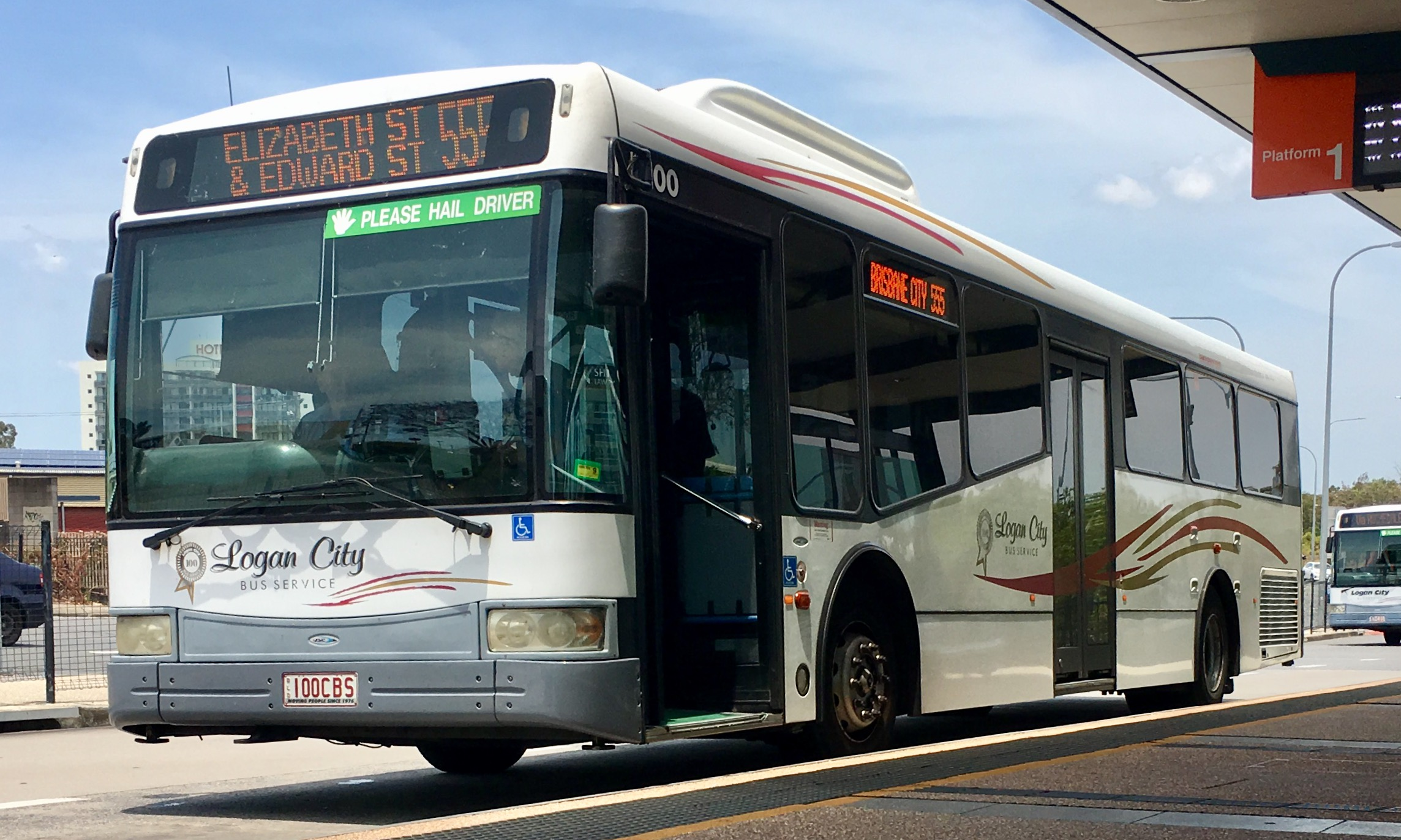 A Clarks Logan City Bus Service bus (Bustech VST bodied Volvo B12BLE) at Springwood Station, Australia